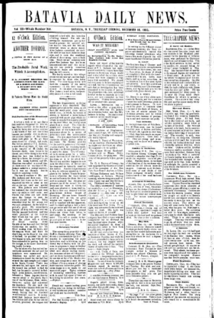 Batavia daily news., December 16, 1880, Page 1, Image 1.